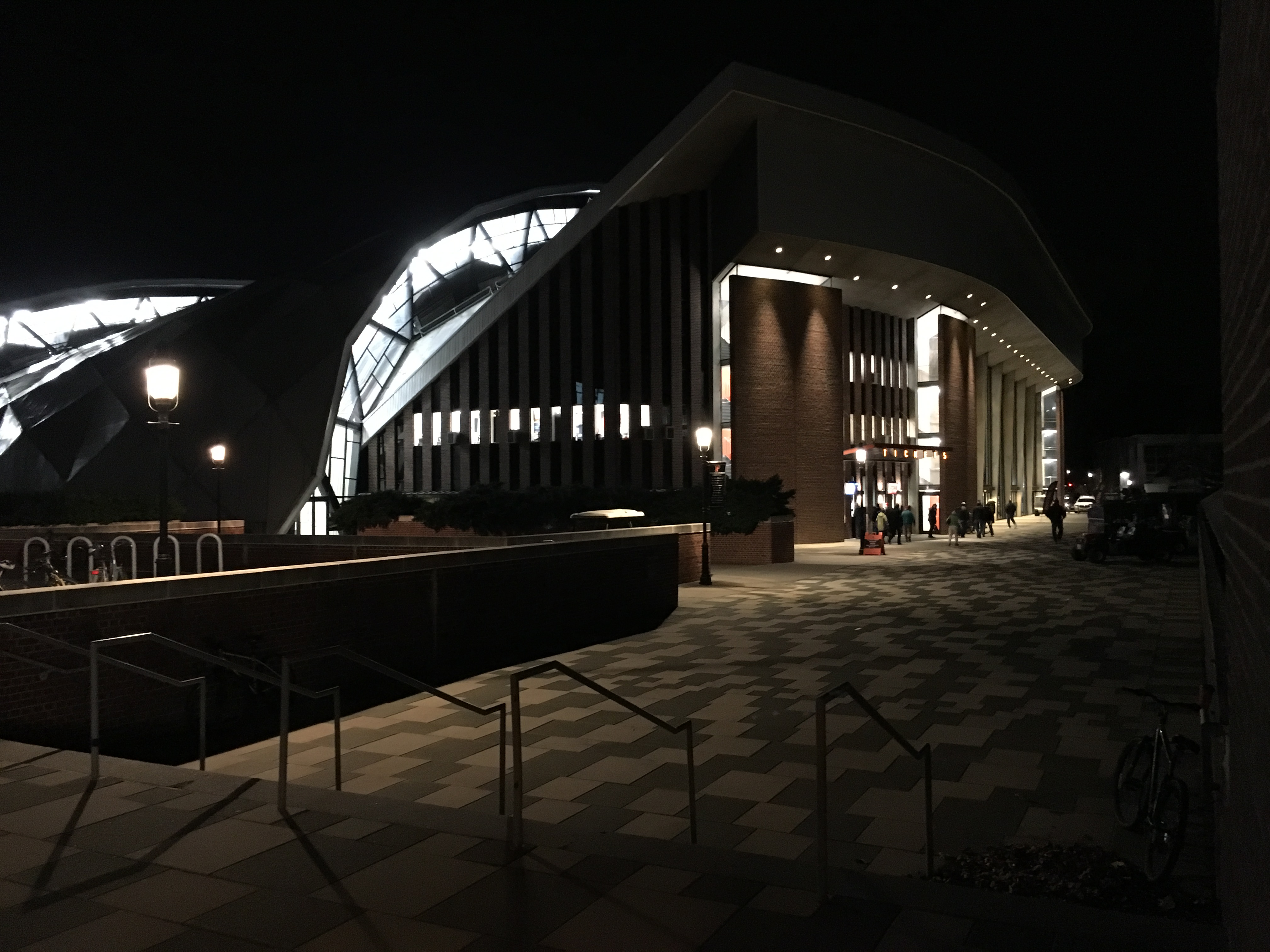 The exterior of Jadwin Gymnasium at Princeton University, as seen at night before a Princeton Tigers basketball game. The entrance doors to the lobby are on the right.